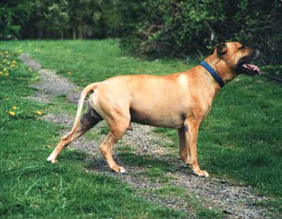 American Pit Bull Terrier D'Artagnan (Bubu)